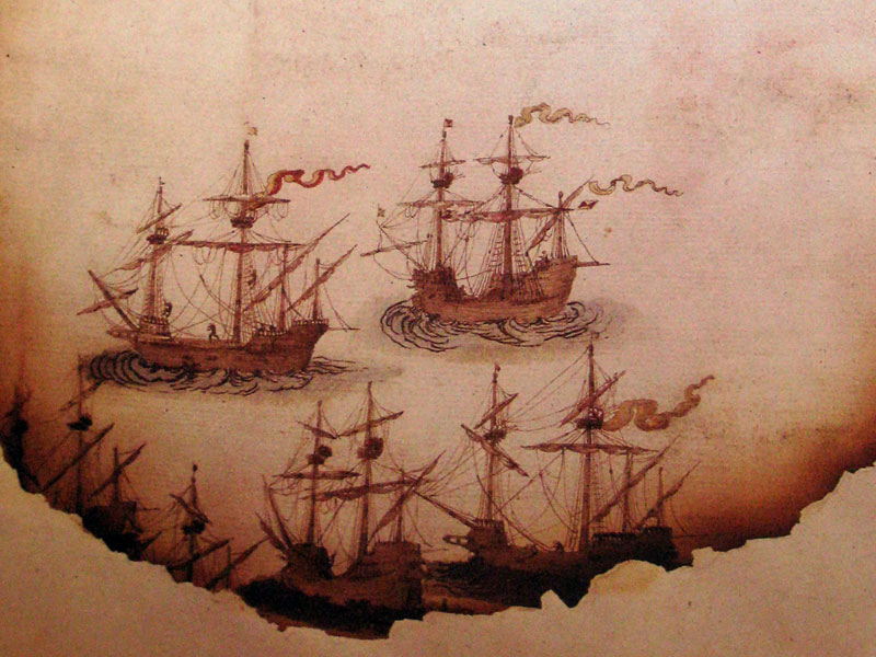 Galleons and Carracks.